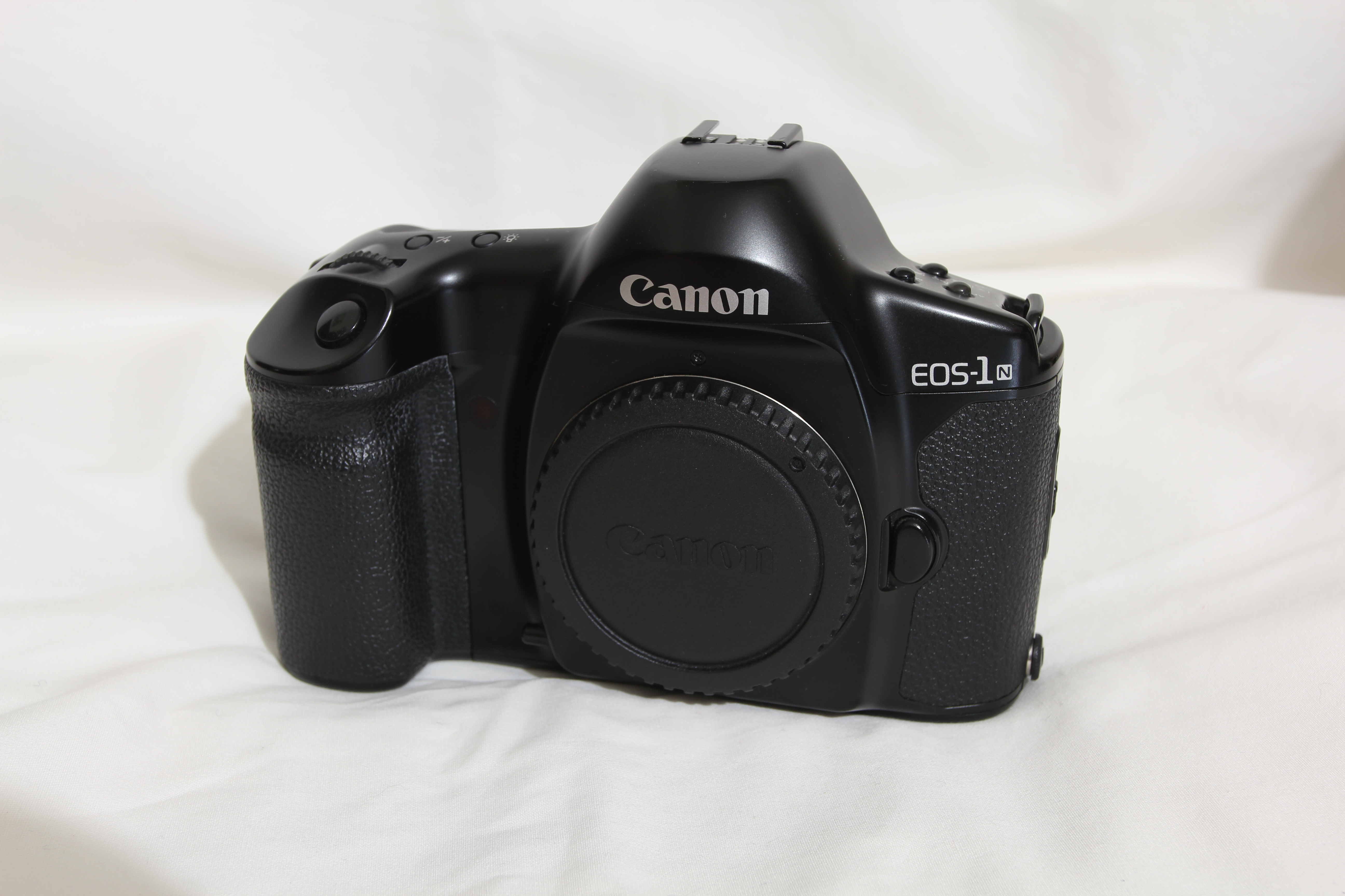 Canon EOS-1N Taken with Canon T2i w/17-40mm f4L